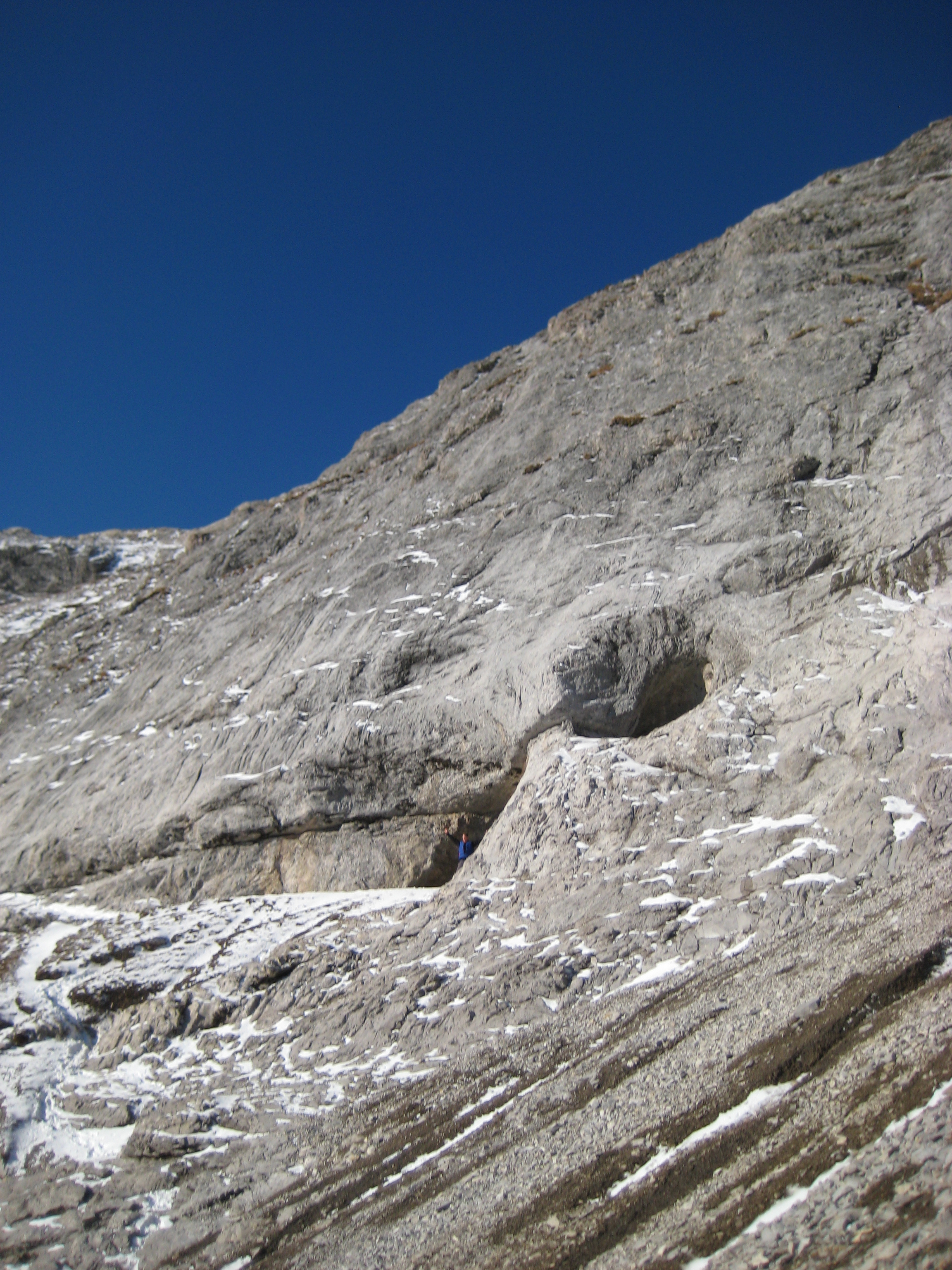 Middle entrance of Gargantua